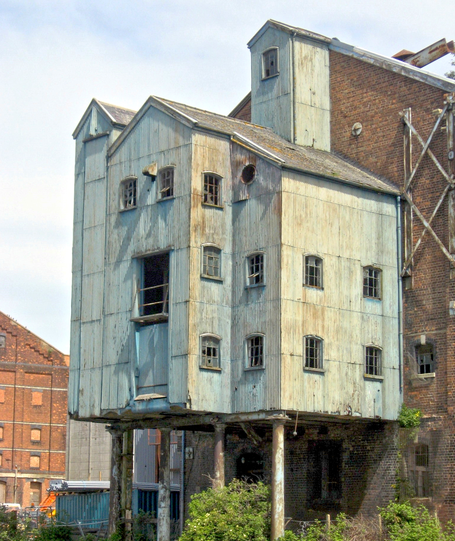 Derelict building at Gloucester docks, 2009